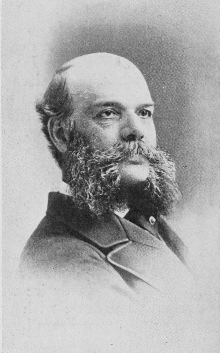 James D. Bulloch, Confederate Army officer